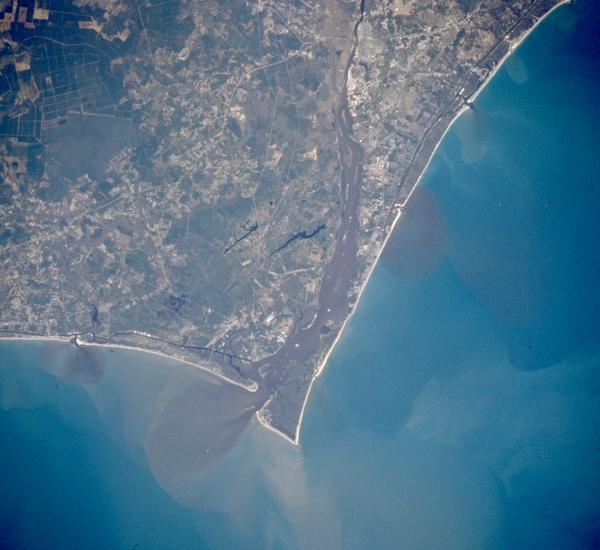 Cape Fear shown in a digitally enhanced NASA satellite photo